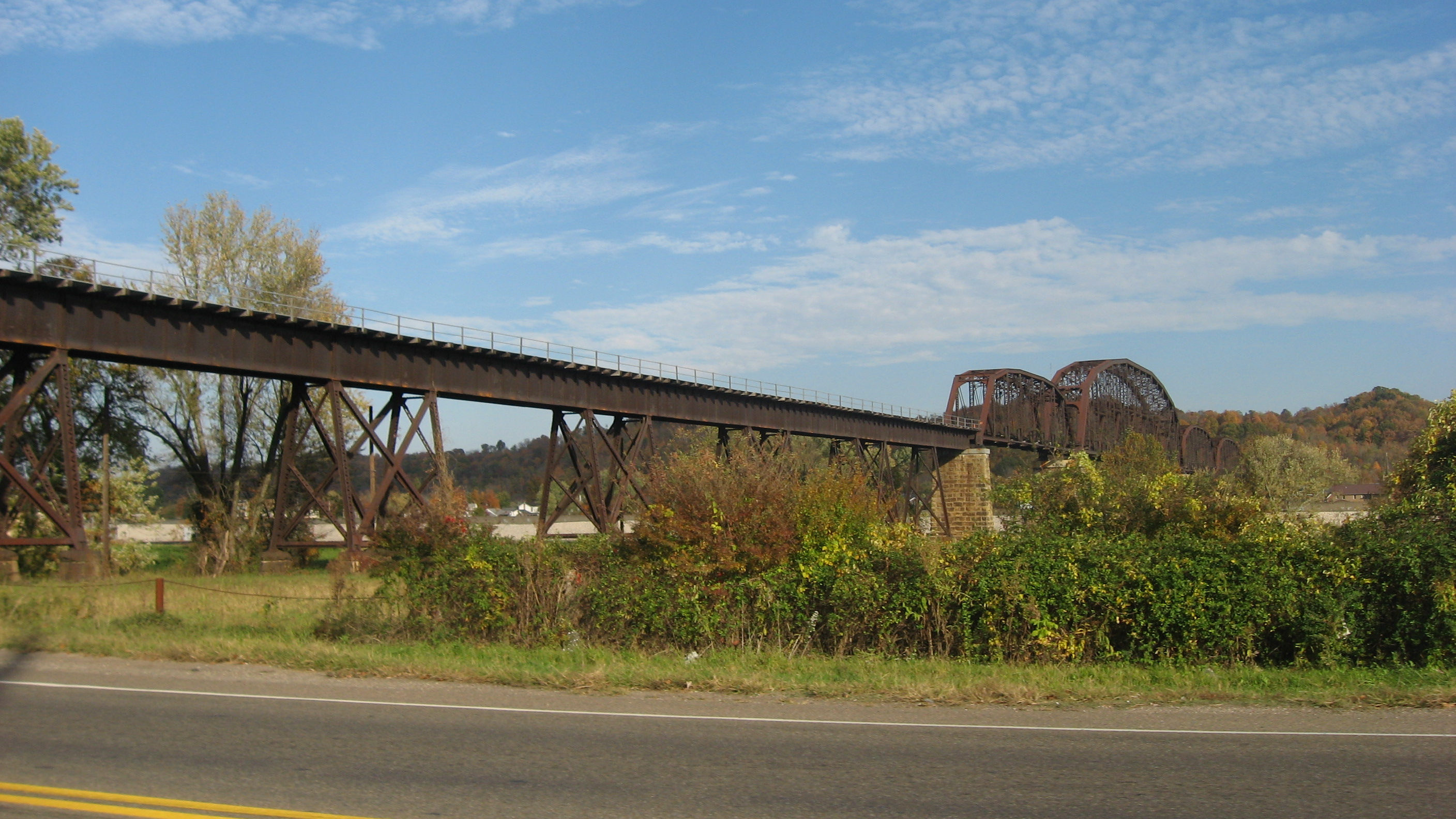 Southern side of the Point Pleasant Rail Bridge, which spans the Ohio River between Gallipolis, Ohio and Point Pleasant, West Virginia in the United States. It was built in 1919.